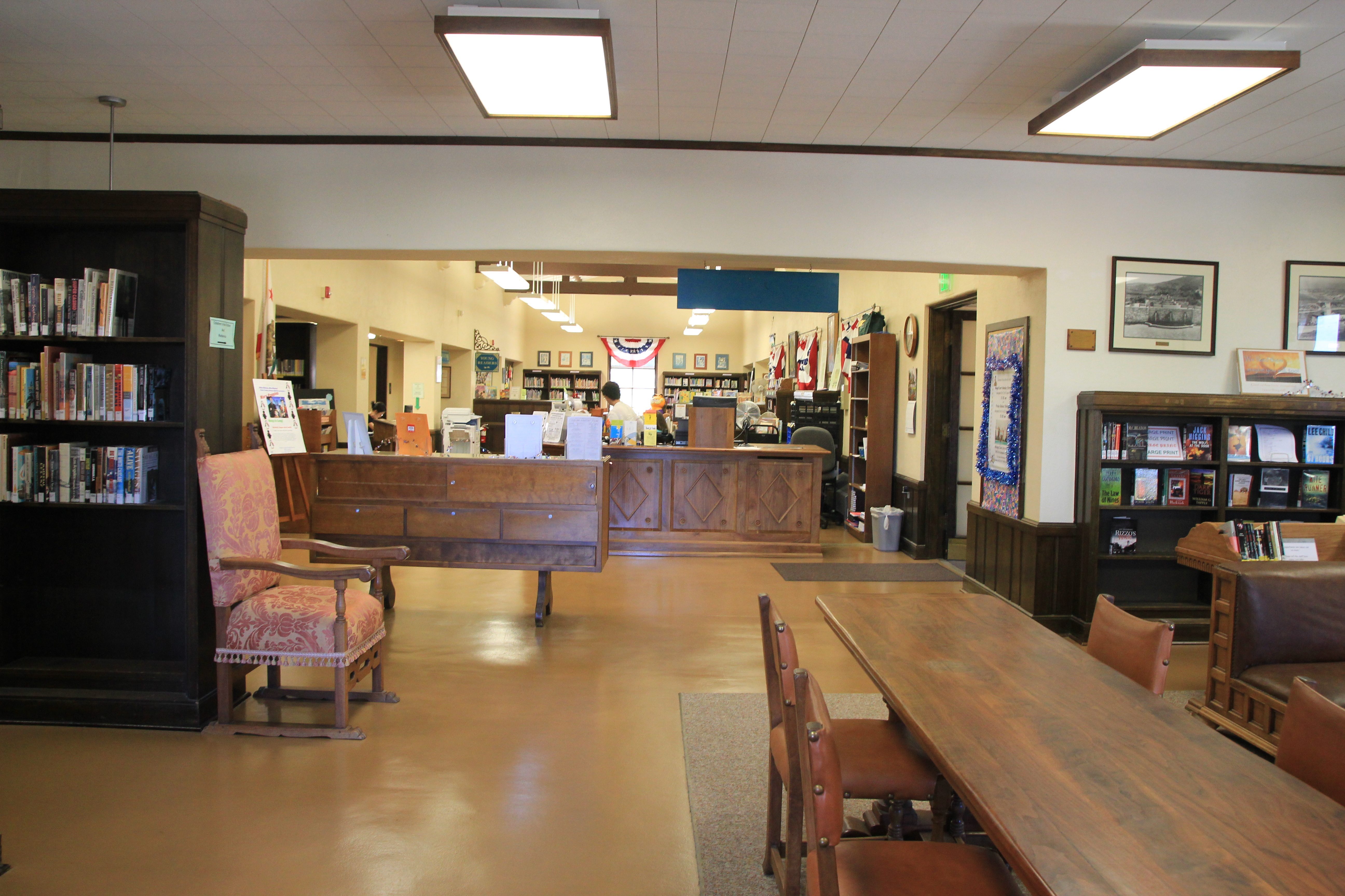 Malaga Cove Library located at the Malaga Cove Plaza in Palos Verdes Estates, CA